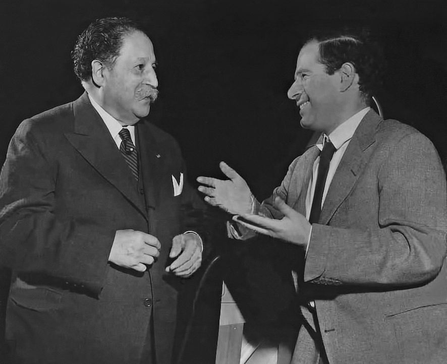 Promotional image of Pierre Monteux and Peter Brook at the Metropolitan Opera, New York, 1953